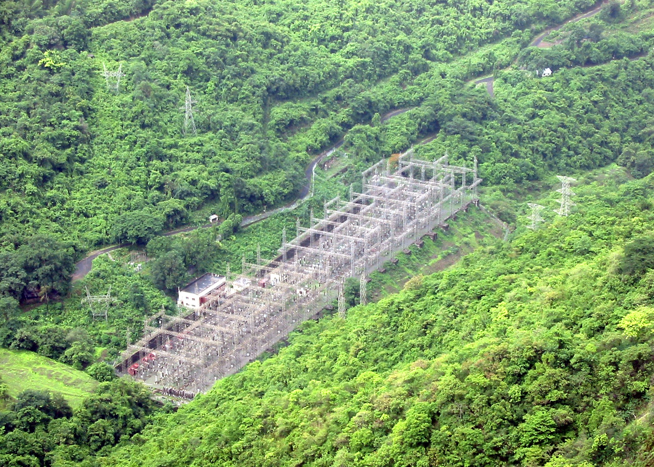 Outdoor Switchyard of KHEP (Koyna Hydroelectric Project), India